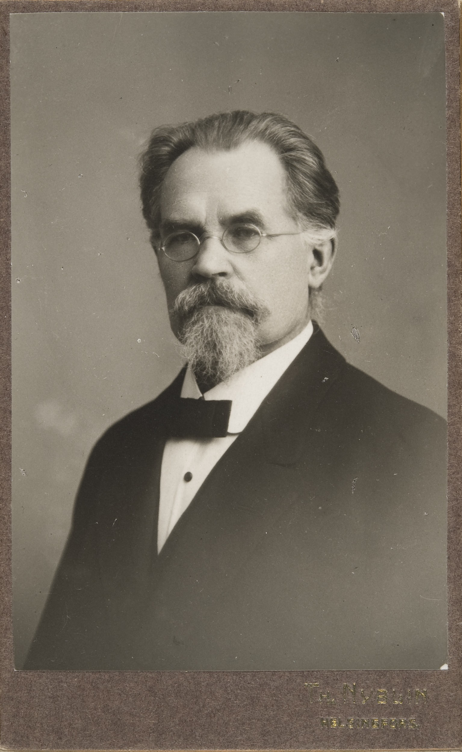 Photograph of the Finnish ethnologist Axel Olai Heikel (1851–1924).